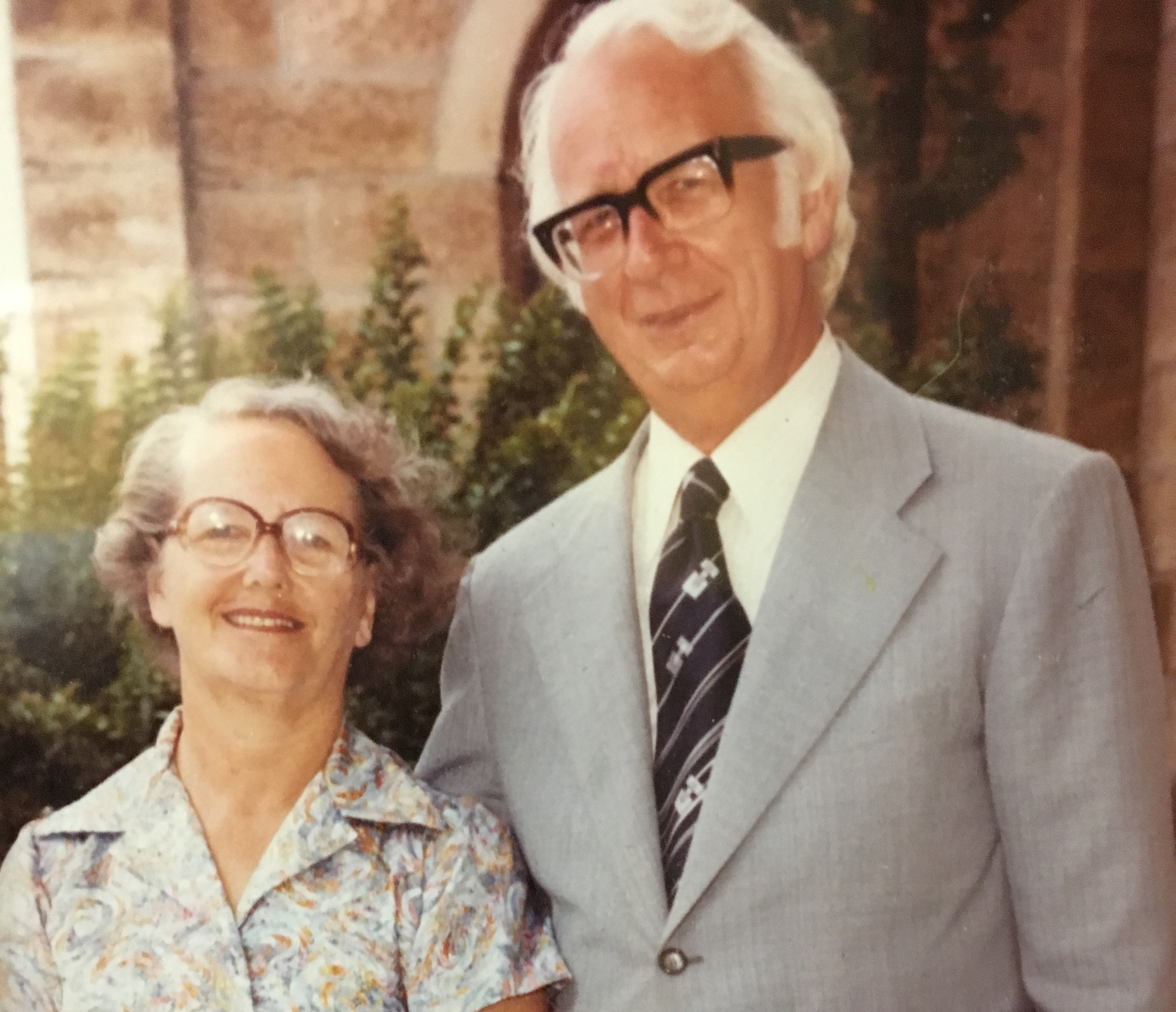 With wife, Elizabeth, in Sydney, circa 1978